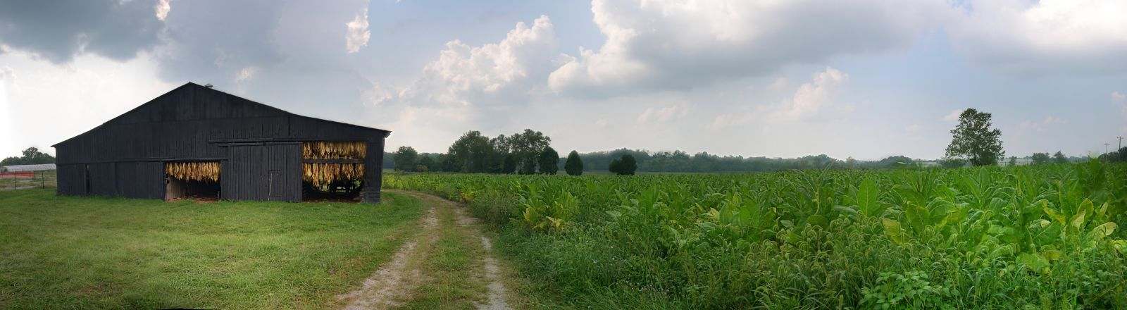 Tobacco Barn, Kentucky, USA